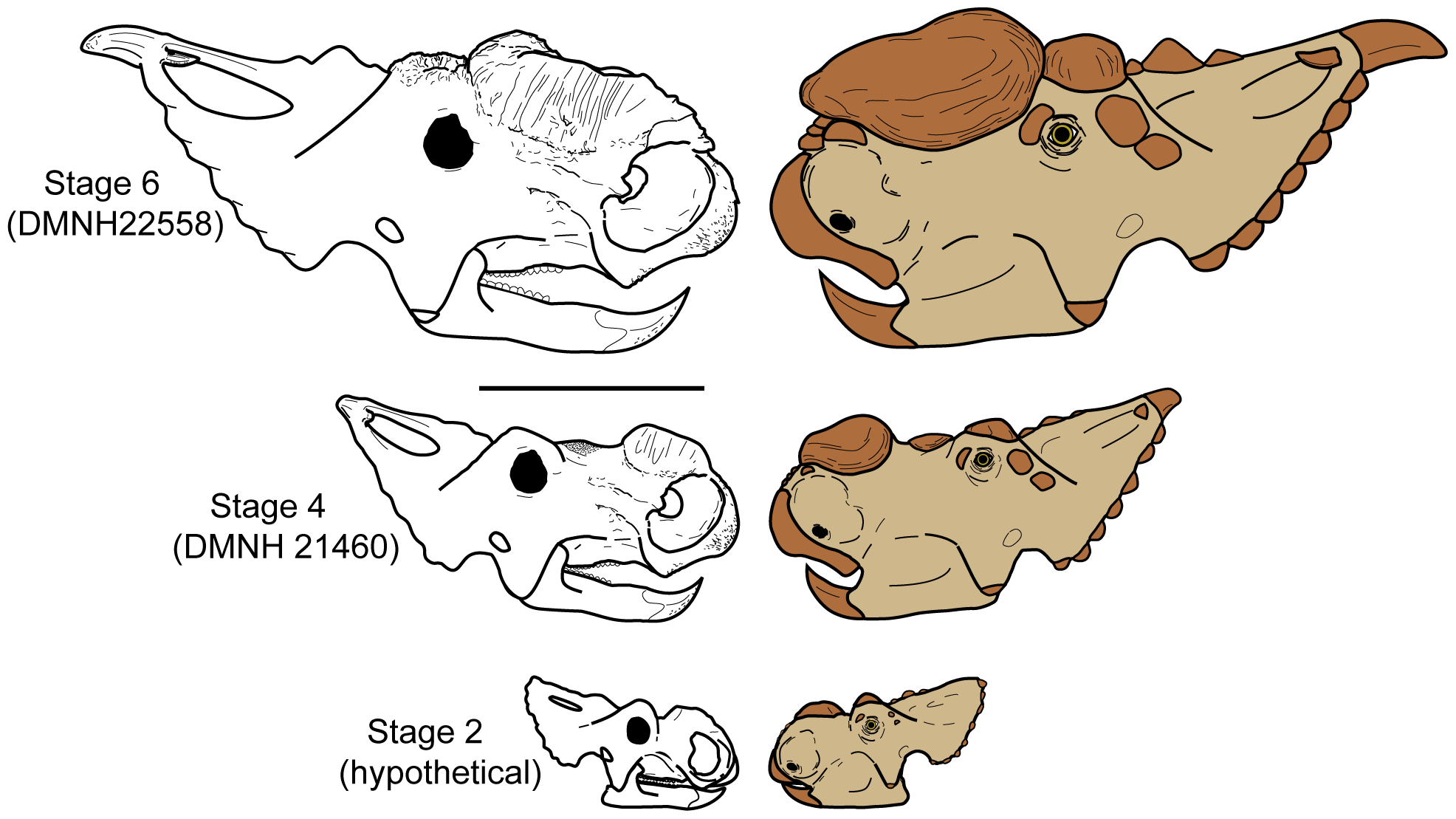 Pachyrhinosaurus perotorum skulls and integument reconstruction through ontogeny. Hypothesis of craniofacial changes in osteology and integument through some of the ontogenetic stages of Pachyrhinosaurus perotorum listed in Table 2. Stage 2 skull based on juvenile P. lakustai of Currie et al.. Stage 4 skull based on DMNH 21460. Stage 6 skull based on DMNH 22558. Right-side ‘life’ reconstructions based on hypotheses of Pachyrhinosaurus integument structures of Hieronymus et al. [10], and new data from DMNH 21460. Light tan indicates ‘normal’ skin, while dark brown indicates cornified scales, horns, sheaths, or other cornified tissue. Scale bar equals 50 cm.